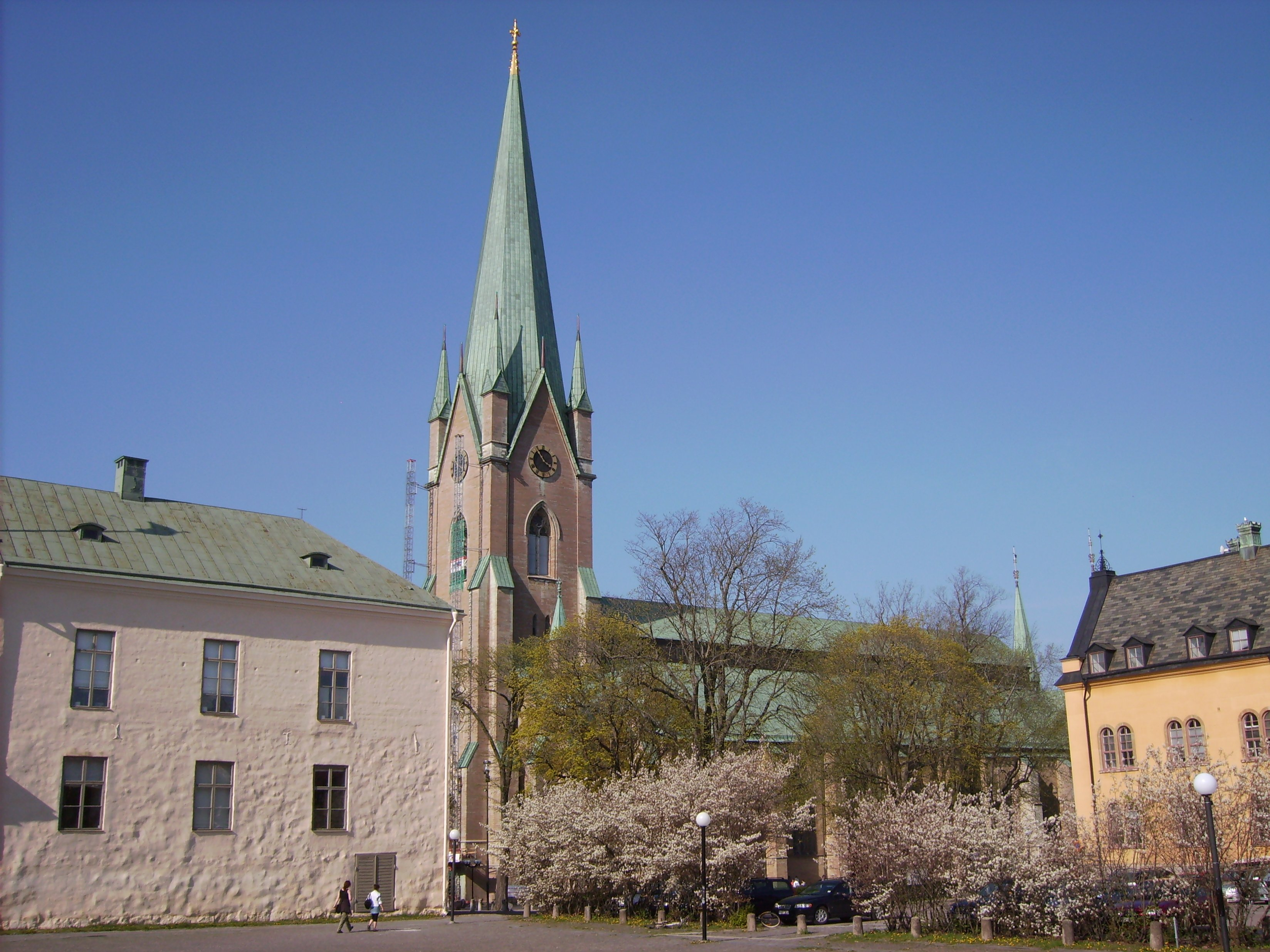 Photo by Harri Blomberg.